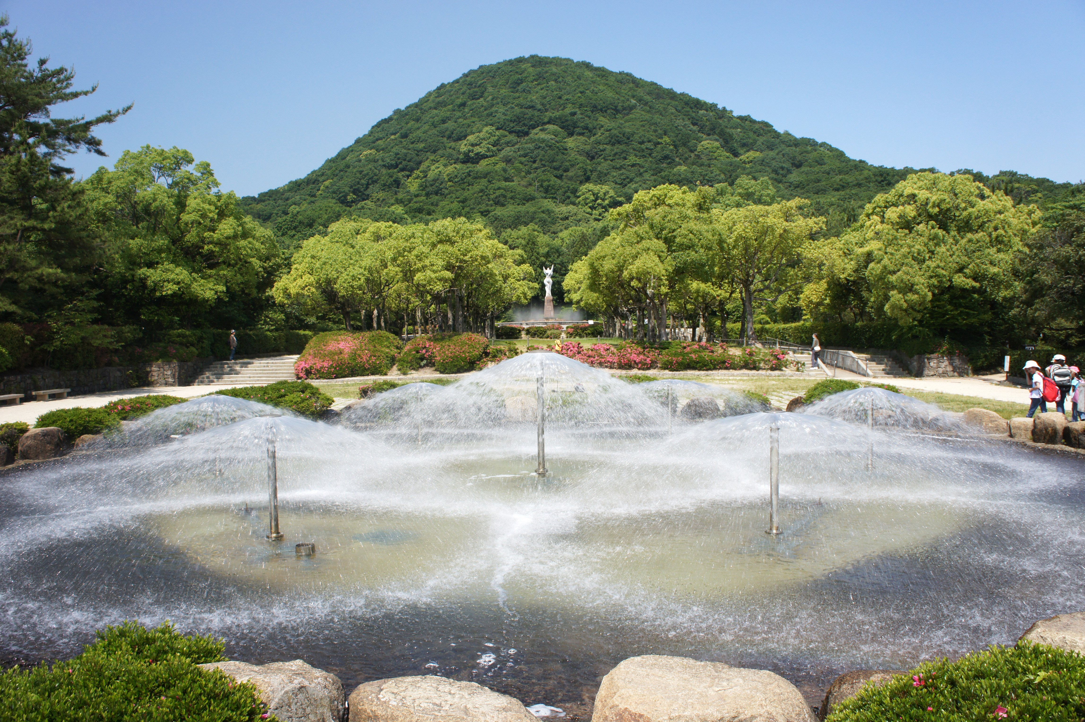 Hyogo prefectural Kabutoyama Forest Park in Nishinomiya, Hyogo prefecture, Japan